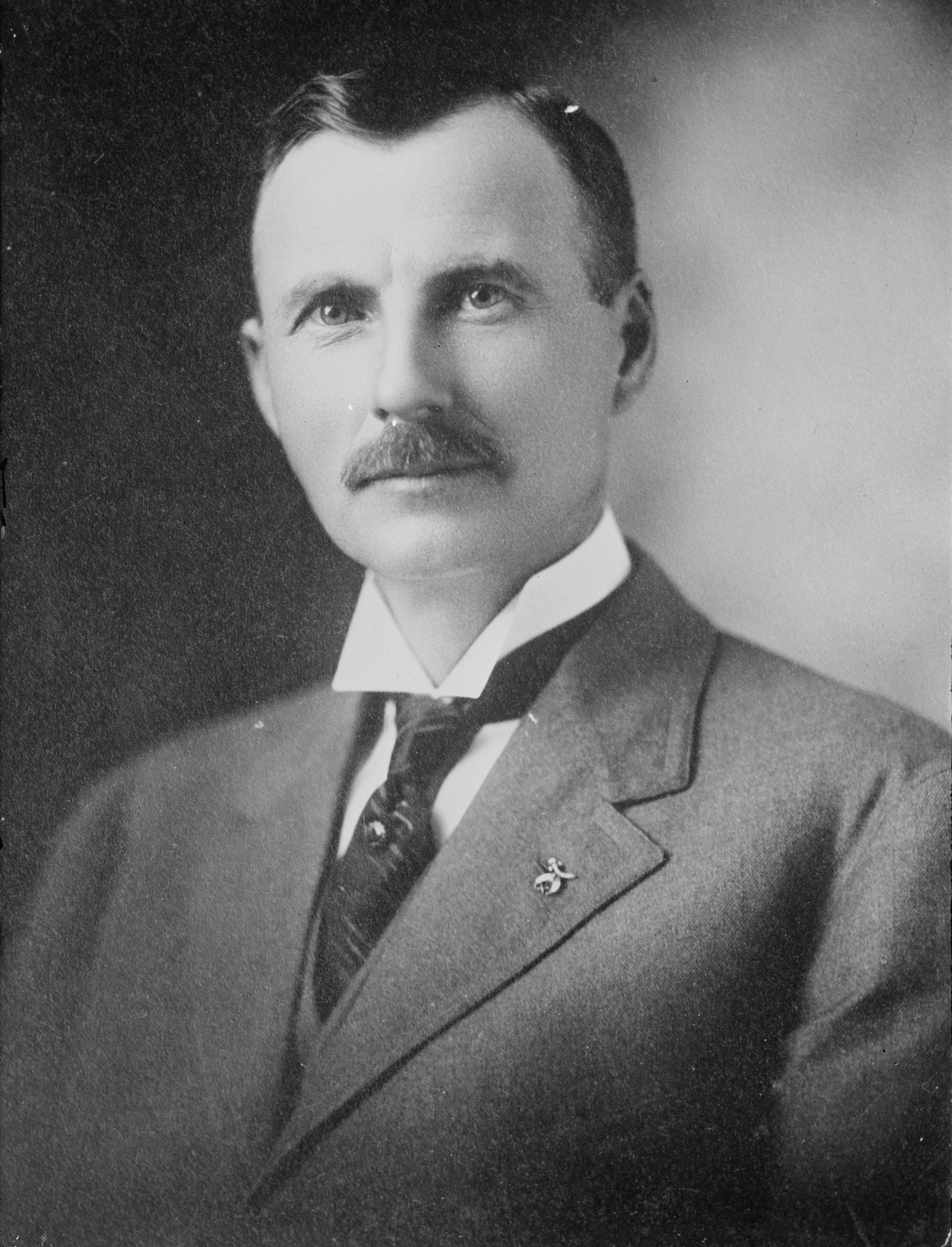 Ralph Henry Cameron (1863-1953) — an American Republican politician active in late 19th and early 20th century Arizona.